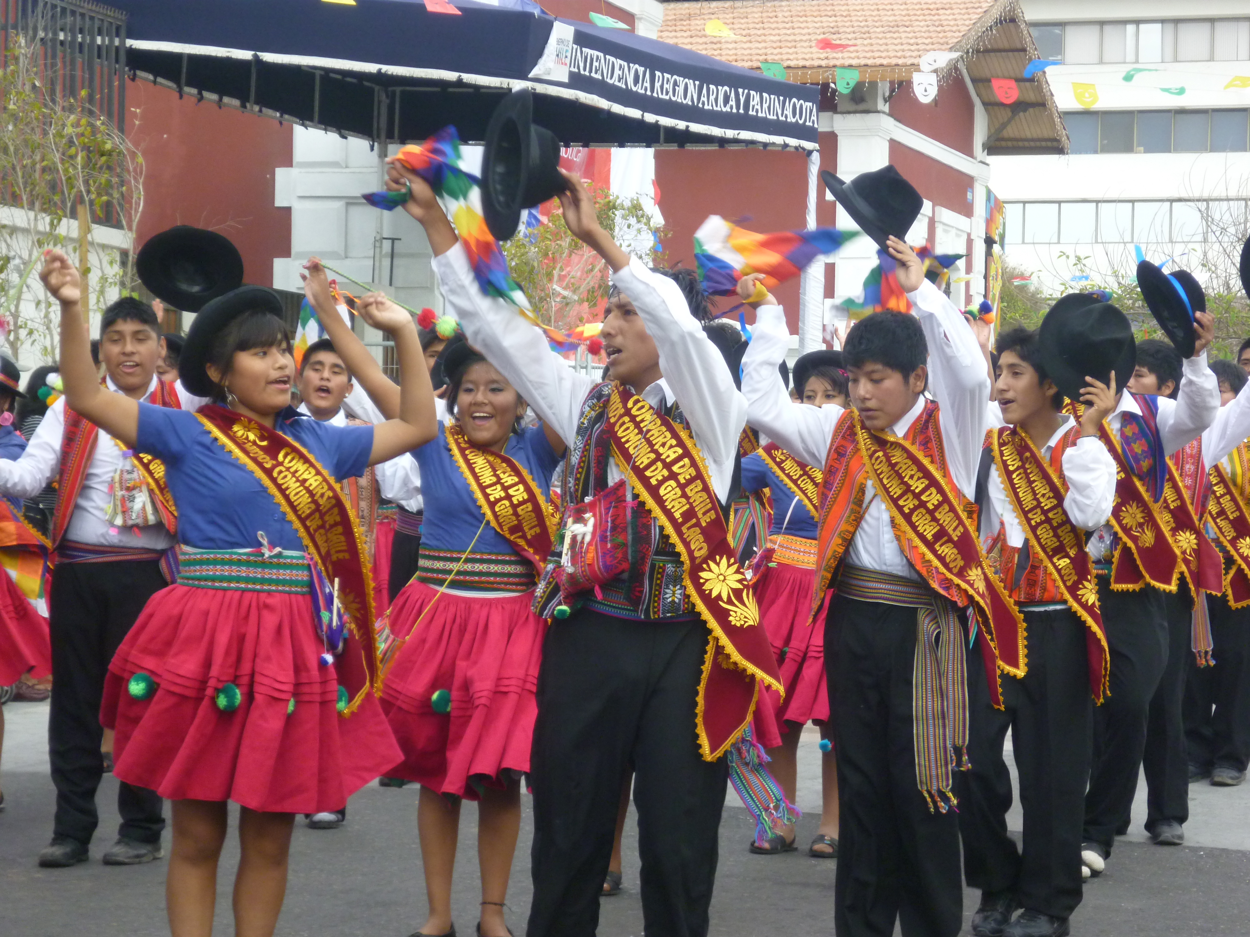 Carnaval Andino con la Fuerza del Sol Inti Ch'amampi 2012 Arica, Chile